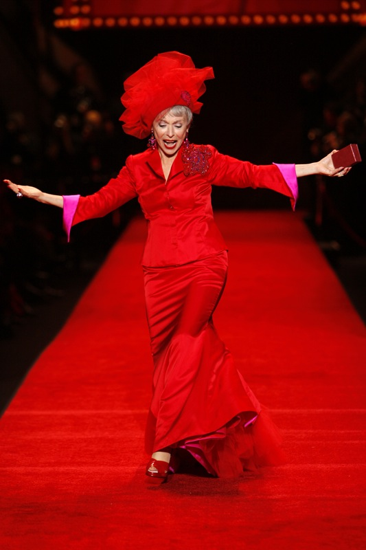 Rita Moreno at The Heart Truth Fashion Show 2008